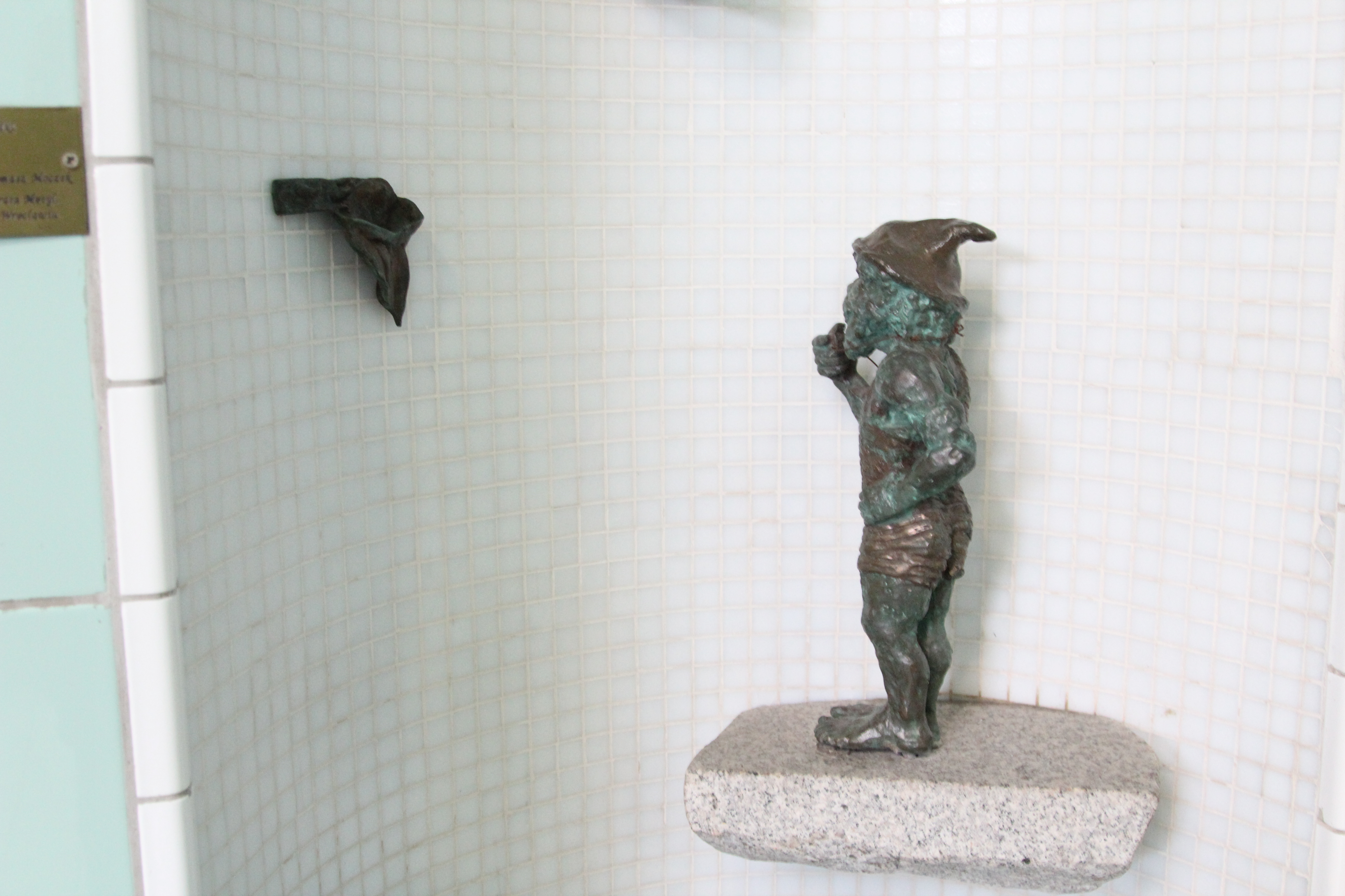 Helper (Helpik) dwarf from Spa Centre on Teatralna 10/12